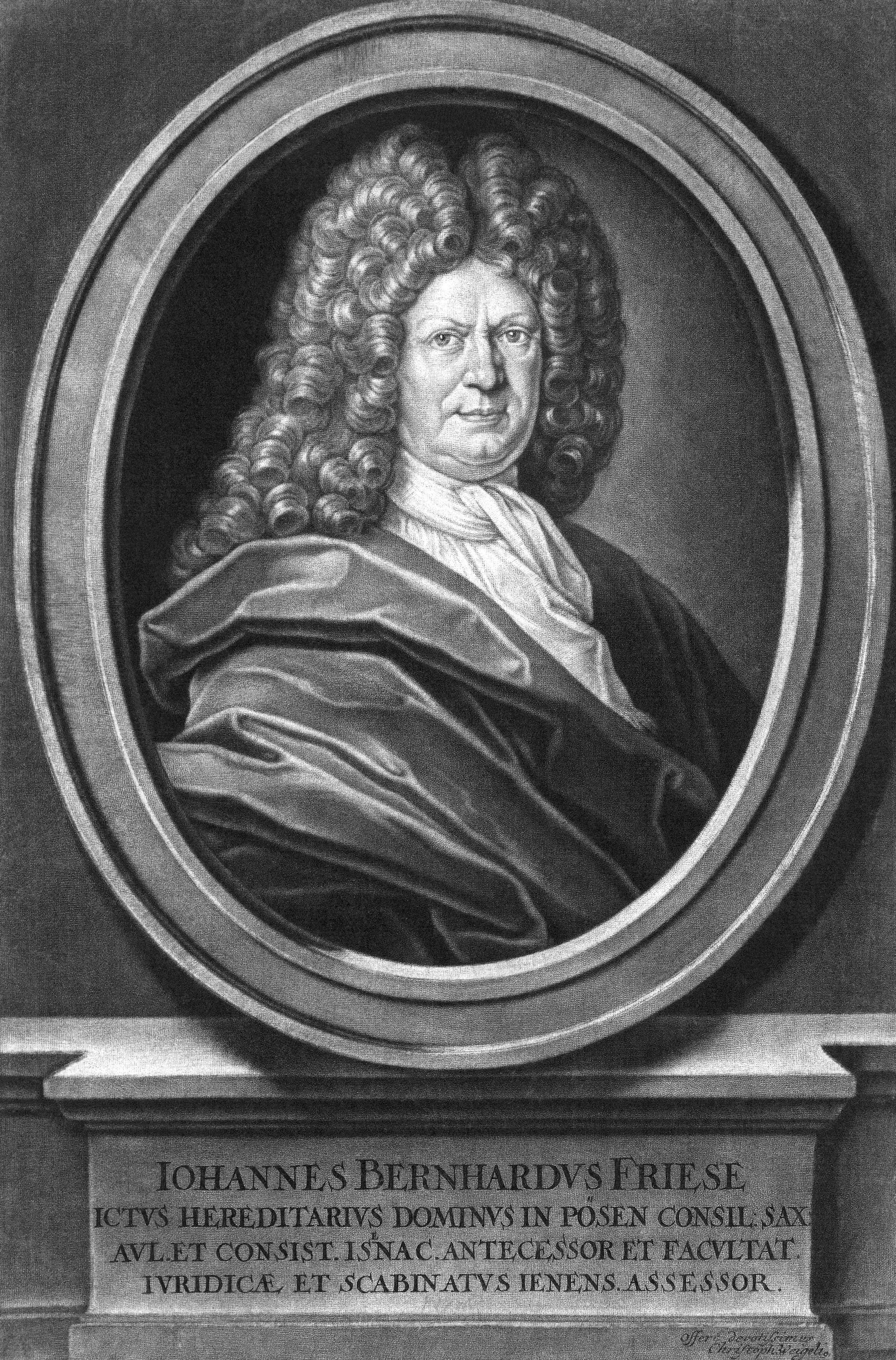 Johann Bernhard Friese (1643-1726) german legal scholar